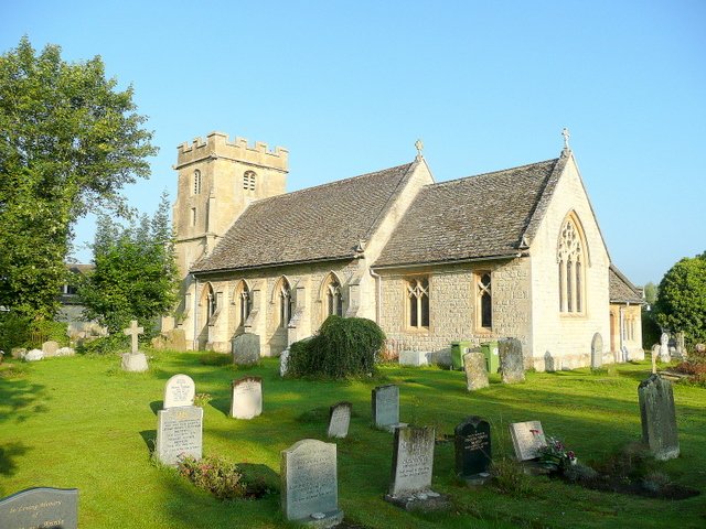 St. Mary and Corpus Christi church, Down Hatherley, near to Down Hatherley, Gloucestershire, Great Britain. This church picture is the photographer's 20,000th contribution to the Geograph project. Photo taken at 8:30am on the same day as upload, 3rd September 2010.